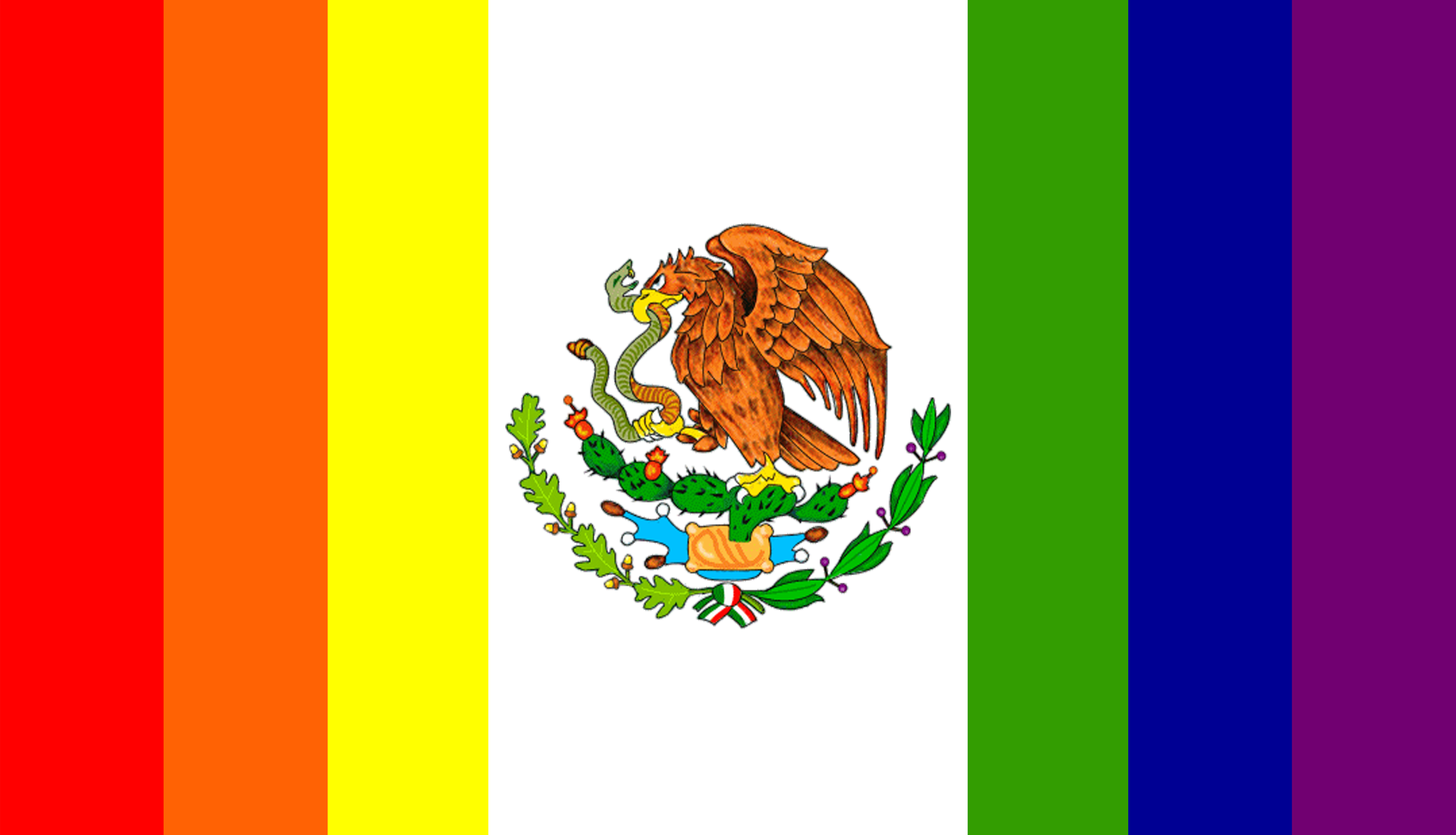 LGBT flag of Mexico